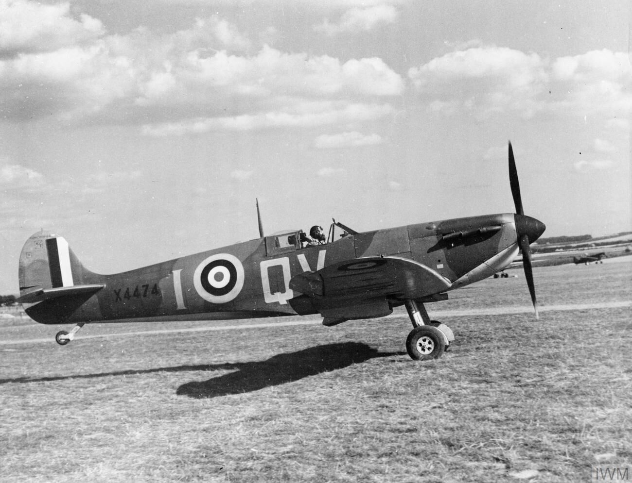 Aircraft of the Royal Air Force, 1939-1945- Supermarine Spitfire. Spitfire Mark IA, X4474 ‘QV-I’, of No. 19 Squadron RAF, taking off from Fowlmere, Cambridgeshire, with Sergeant B J Jennings at the controls.